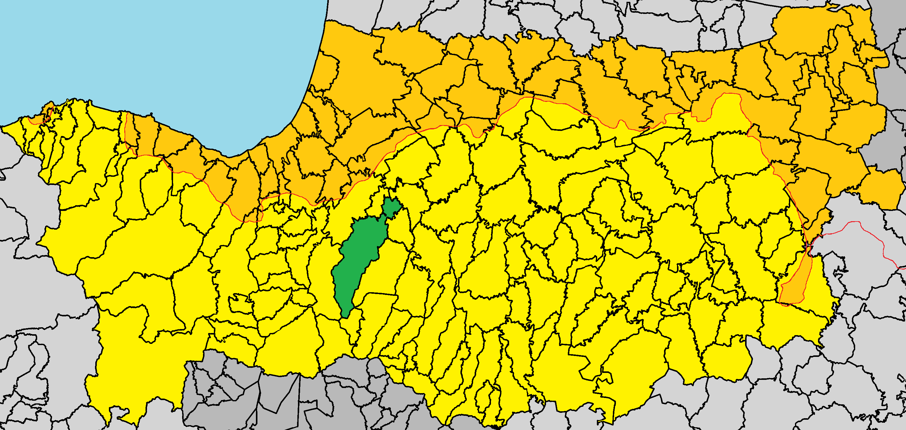 Nikitari in Nicosia District.